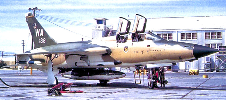 66th Weapons Squadron - Republic F-105G Thunderchief 63-8318.